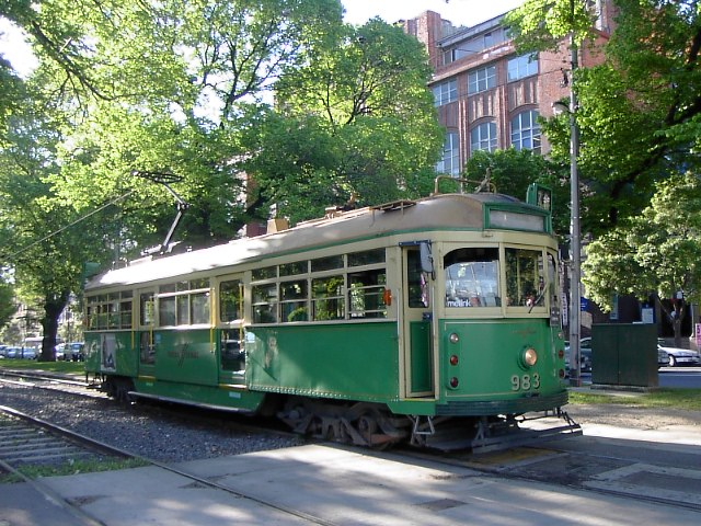 A W6 class tram in Victoria Parade, Melbourne, Australia